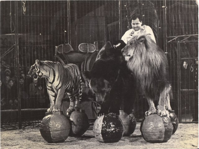 Ivan Fedotovich Ruban (1913-2004)